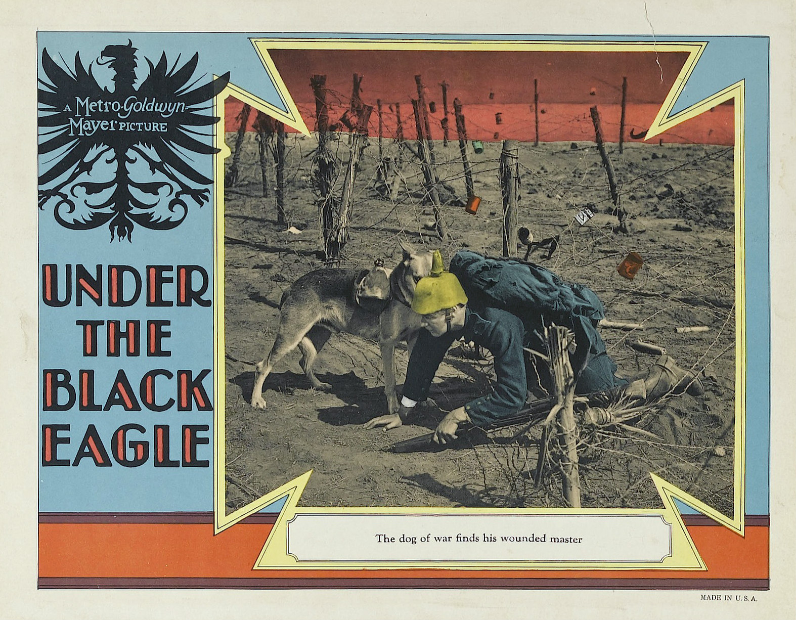 Lobby card for the American war drama film Under the Black Eagle (1928) with Ralph Forbes and Flash the Dog. There are no copyright marks. At bottom right is Made in USA.